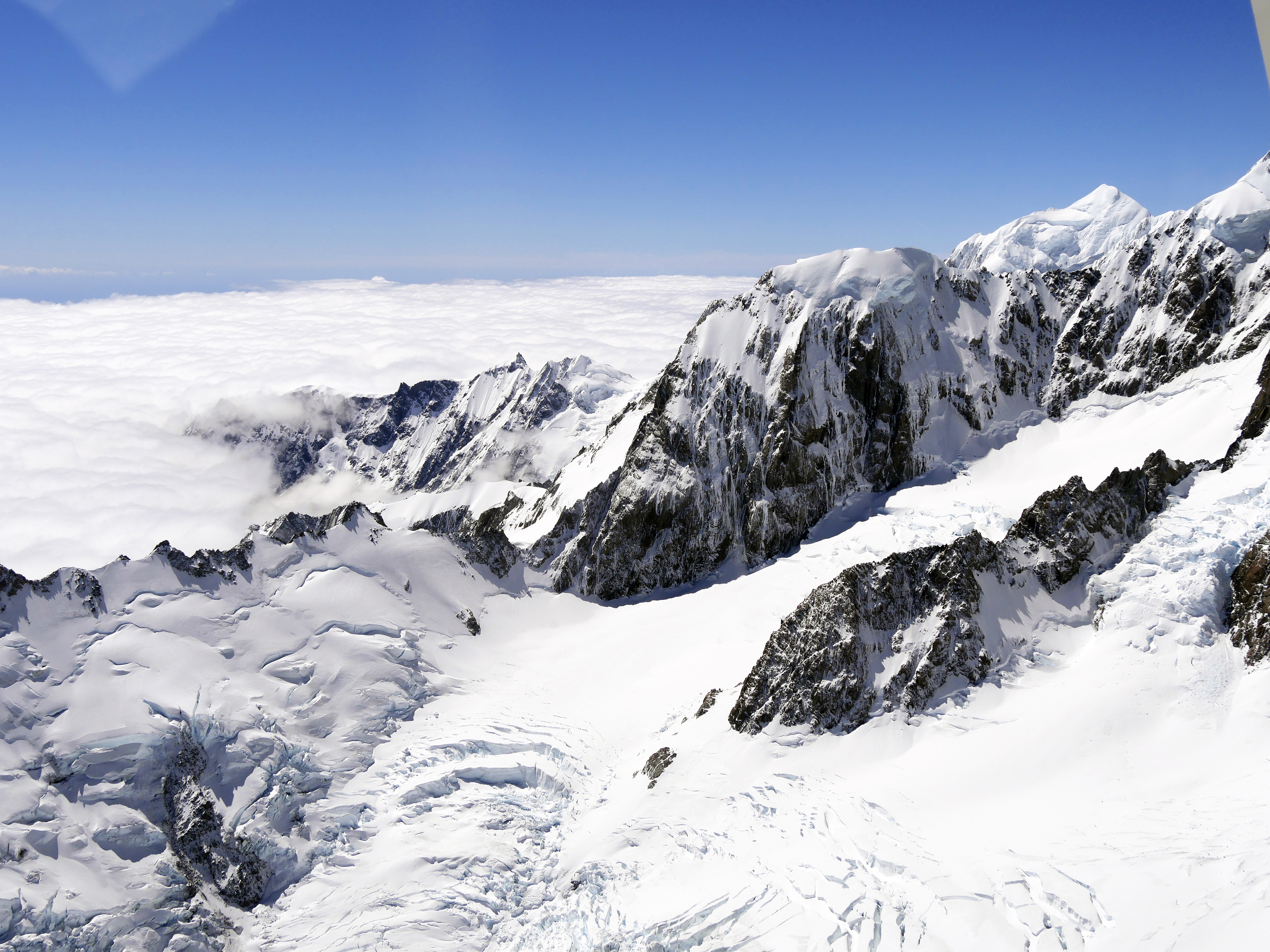 Southern Alps, Mount Hicks, Mount Vancouver, Sheila Glacier, Empress Glacier, Earl Ridge, Harper Saddle, Sturdee Peak and Vanguard, South Island, New Zealand